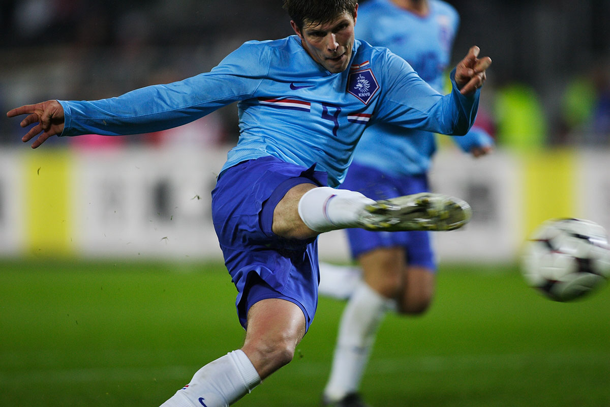 MARCH 26, 2008 - Football : Klaas Jan Huntelaar of Netherlands in action during the international friendly match between Austria and Netherlands at the Ernst Happel stadium on March 26, 2008 in Vienna, Austria. (Photo by Tsutomu Takasu)